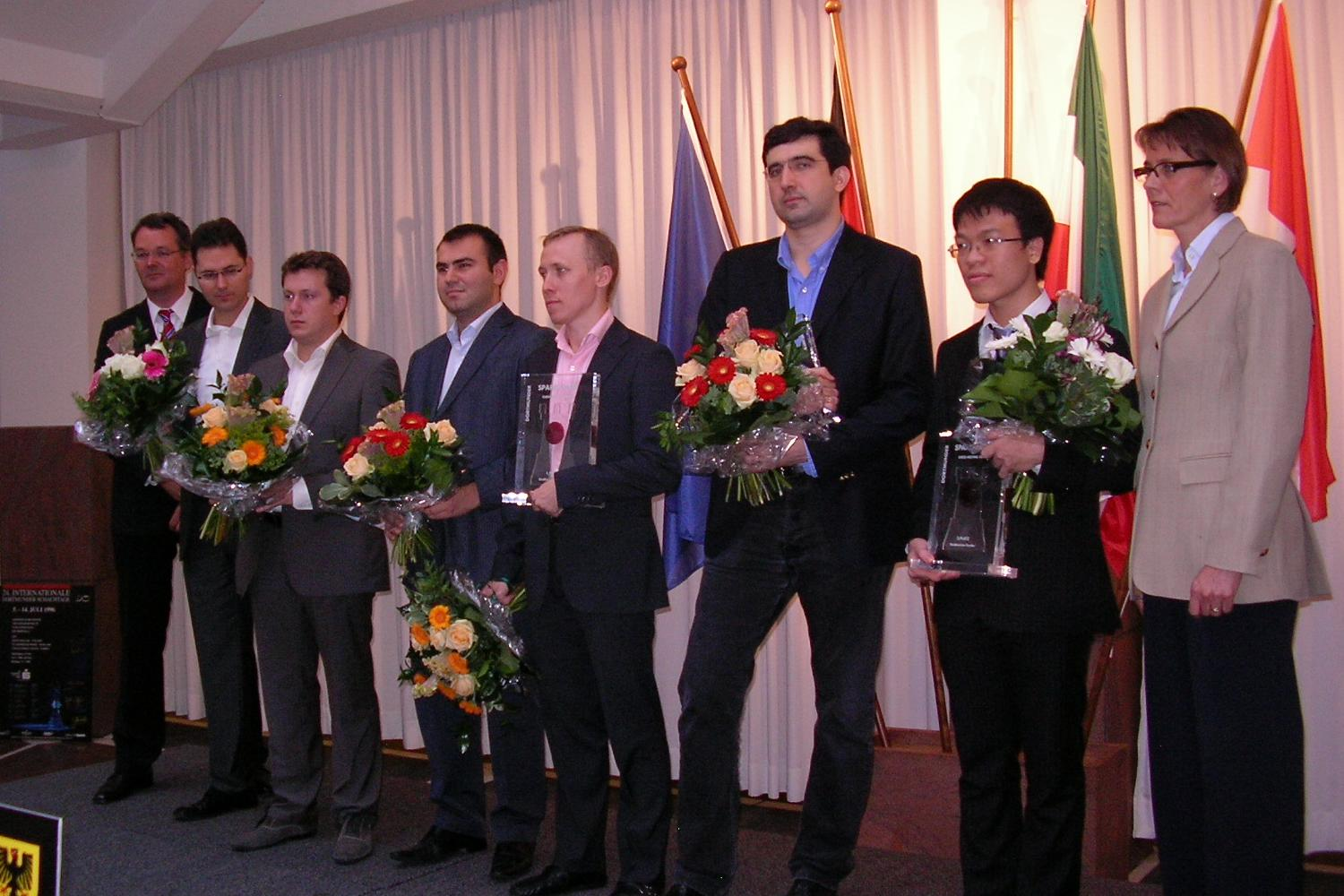 Victory ceremony: Uwe Samulewicz, Peter Leko, Arkadij Naiditsch, Shakhriyar Mamedyarov, Ruslan Ponomariov, Wladimir Kramnik, Quang Liem Le and Birgit Jörder, Dortmunder Schachtage 2010, Photographer Gerhard Hund.